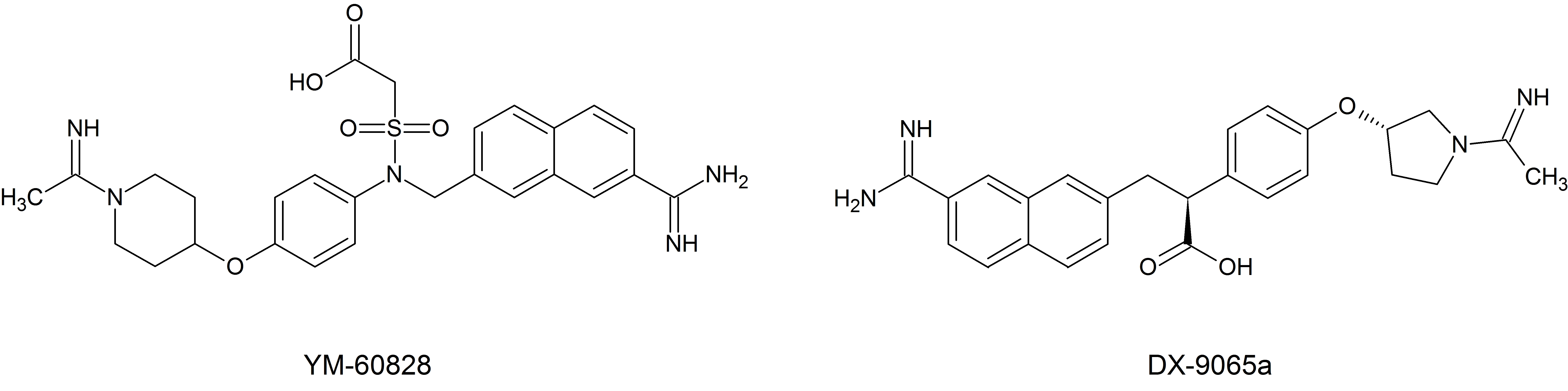 The Image shows the molecules YM-60828 and DX-9065a that played an important role in the developing process of direct Xa-inhibitors, a novel class of anti-coagulation drugs.